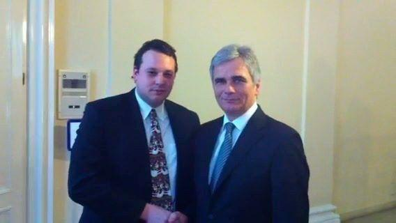 Tschabuschnig congratulates the Austrian Federal Chancellor Werner Faymann